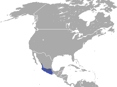 Mexican Cottontail (Sylvilagus cunicularis) range